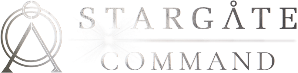 Logo of the official Stargate website.